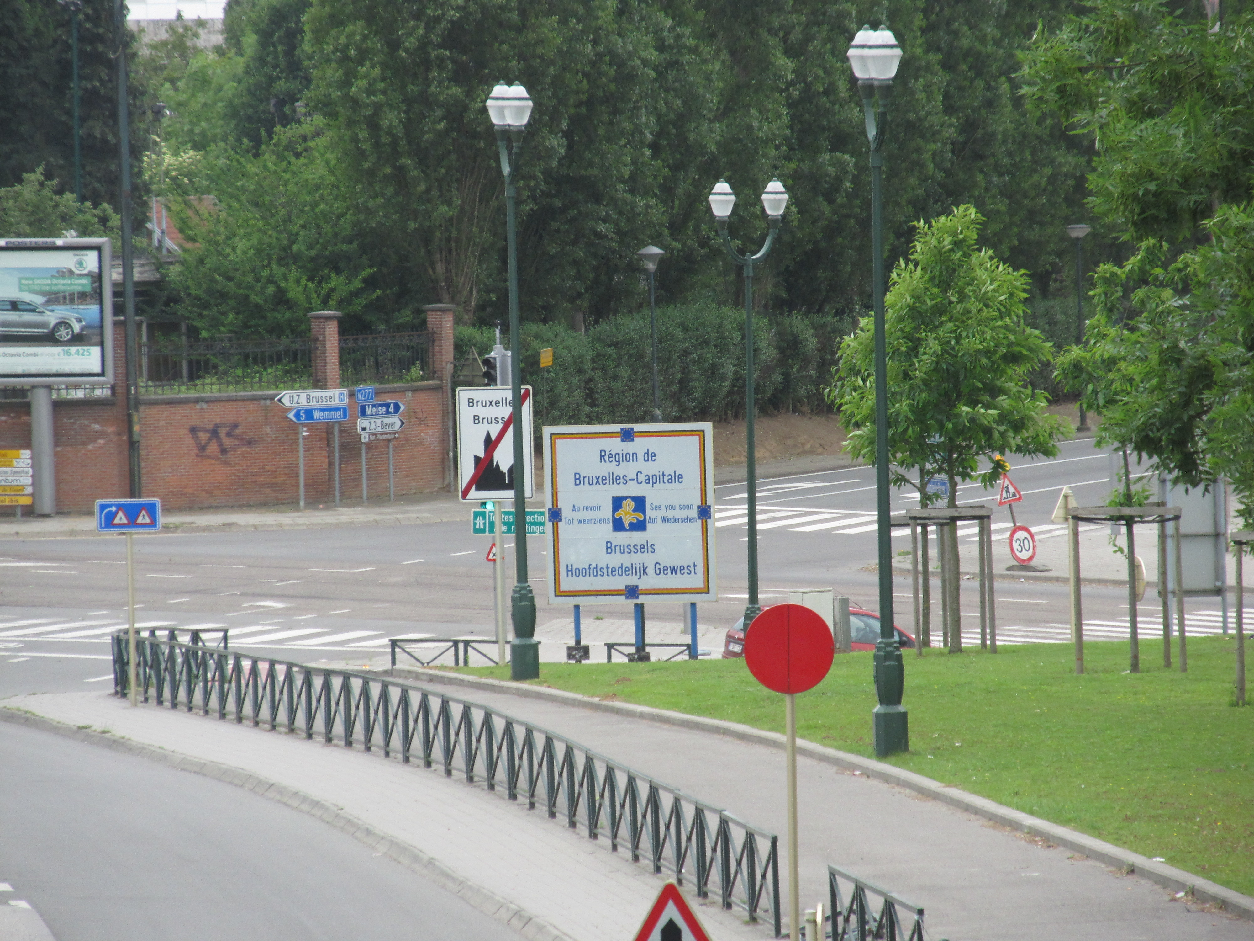 Brussels-Capital Region city limit signs near the Flemish municipality of Strombeek-Bever.